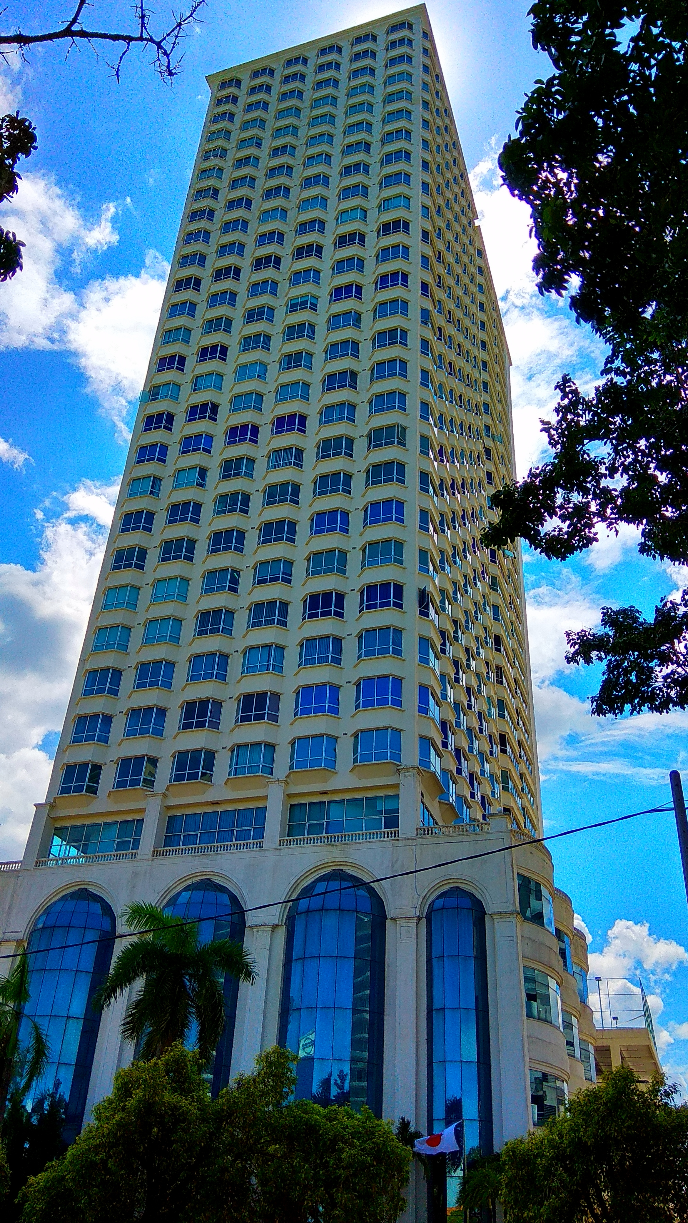 BHL Tower at Northam Road within the city of George Town in Penang, Malaysia. This skyscraper also houses the Consulate-General of Japan in Penang.